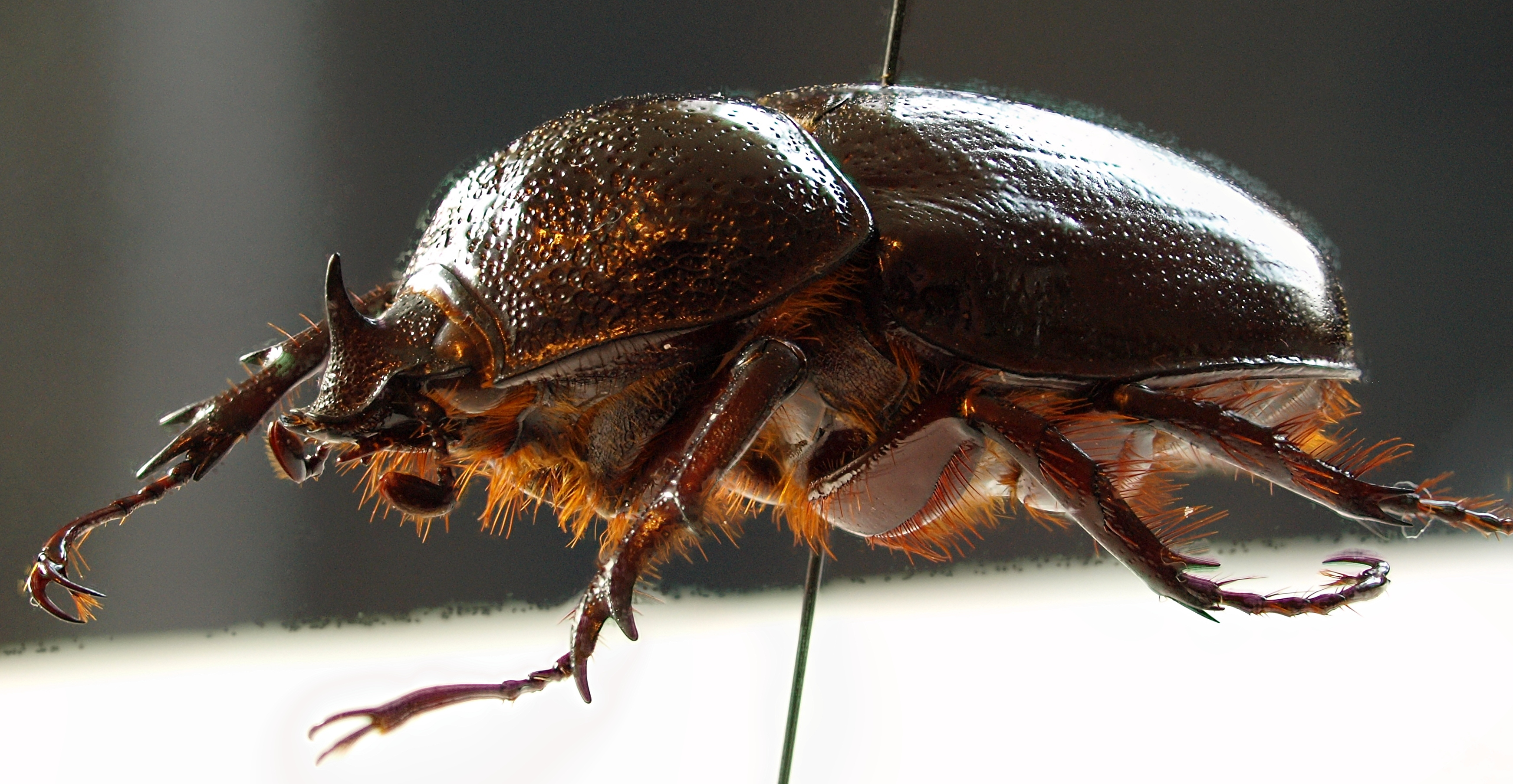 Haploscapanes barbarossa, male, stacked image. Source: own collection